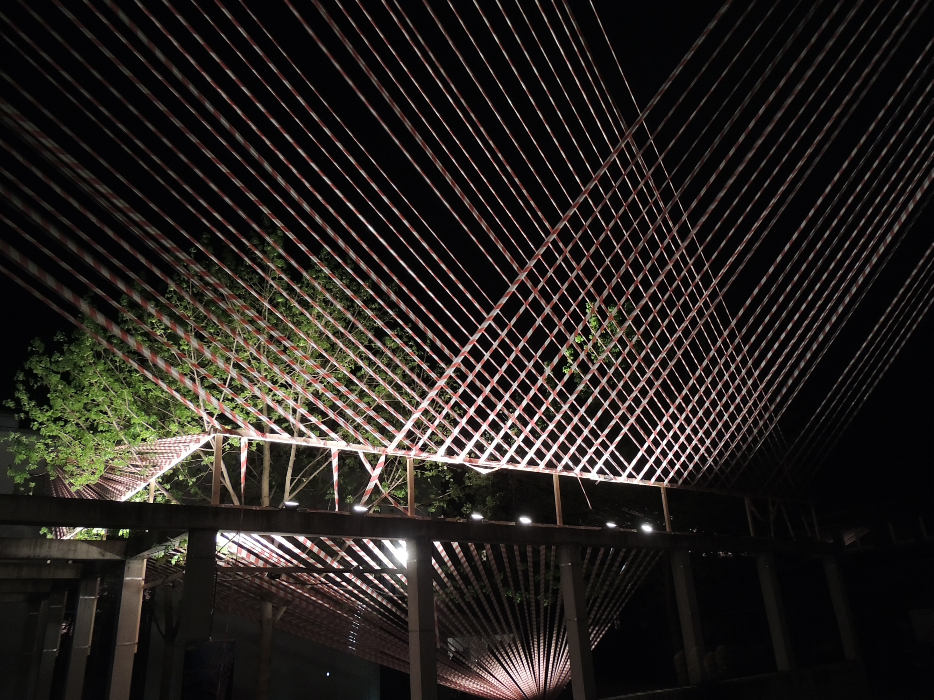 Installation BLICK(T)RÄUME by the Luminale project of the Protestant Parish of Bornheim (concept by Peter Habermehl) during the Luminale 2014 at the Church of Johannes in Frankfurt am Main-Bornheim